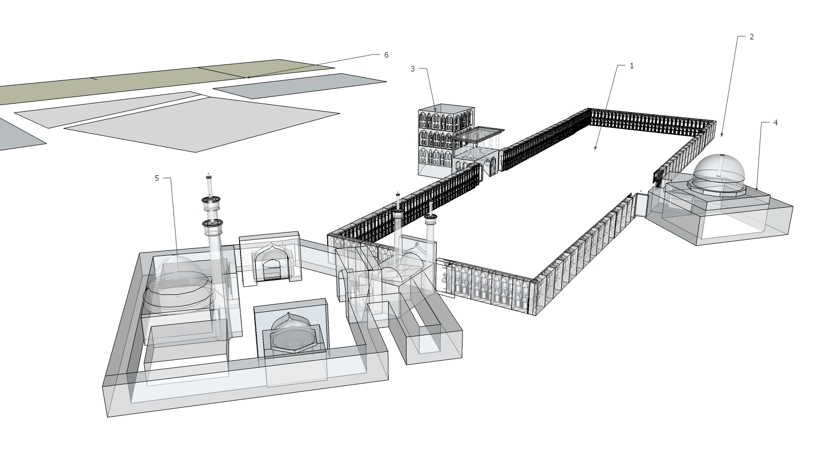 Isfahan's major buldings with the Maidan in the era of Safavids